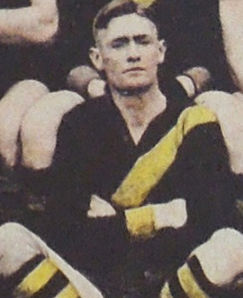 Photograph of Jack Twyford from 1931-1933